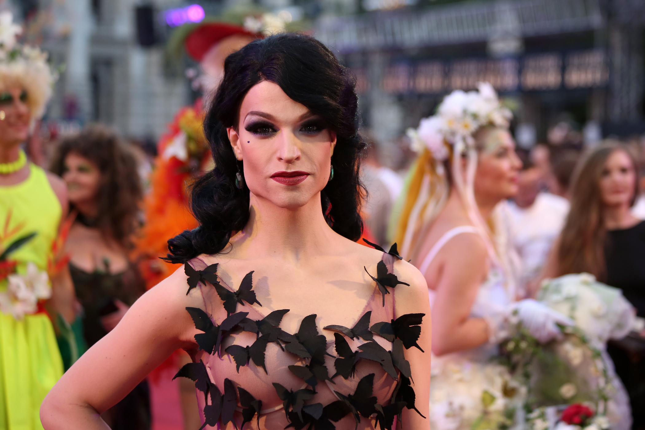 Life Ball 2014: Tamara Mascara on the red carpet on the square in front of the Rathaus (Town Hall) of Vienna, Austria.